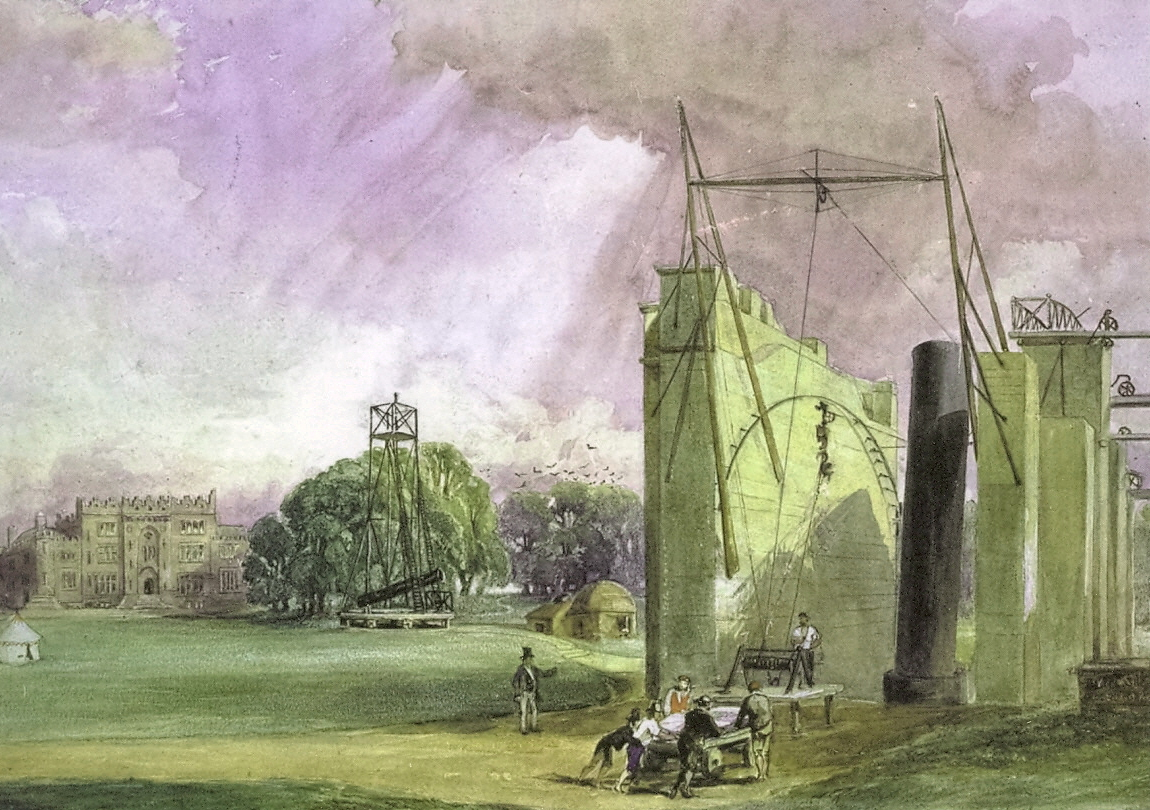 Birr Castle. 3 ft and 6 ft telescopes. William, 3rd Earl of Rosse directing the conveyance of the great speculum. 1845. Painting by Henrietta Crompton.